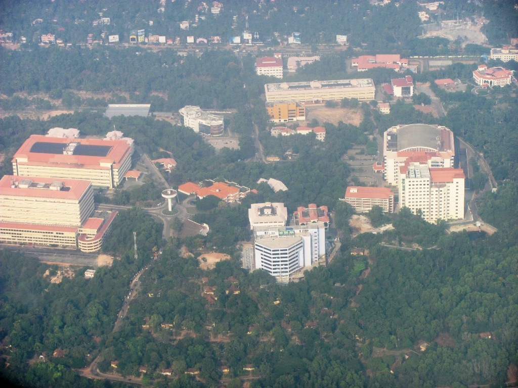 Trivandrum Technopark Phase 1 Skyline.Shot from flight.